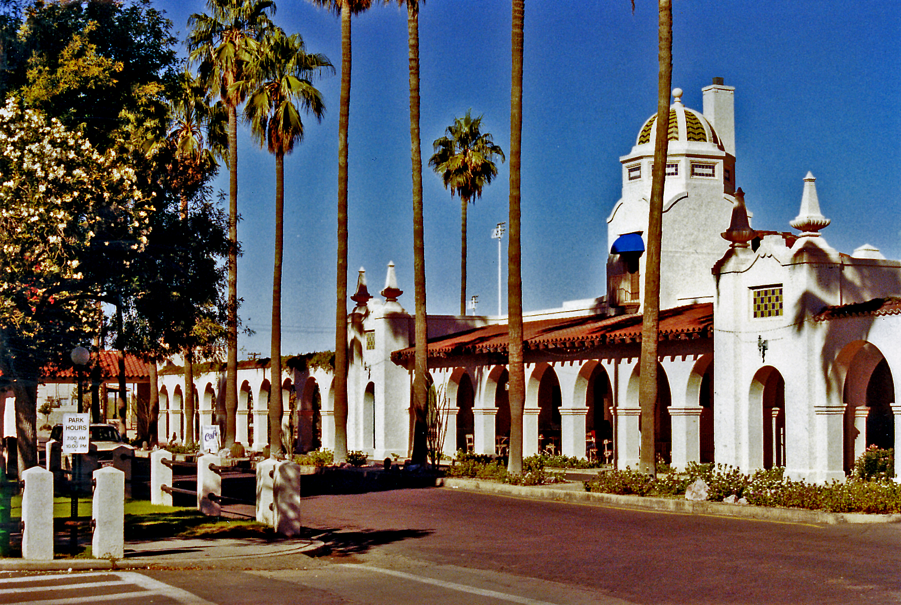 Ajo Plaza, 1990 Uploaded on April 10, 2005 by PhillipC